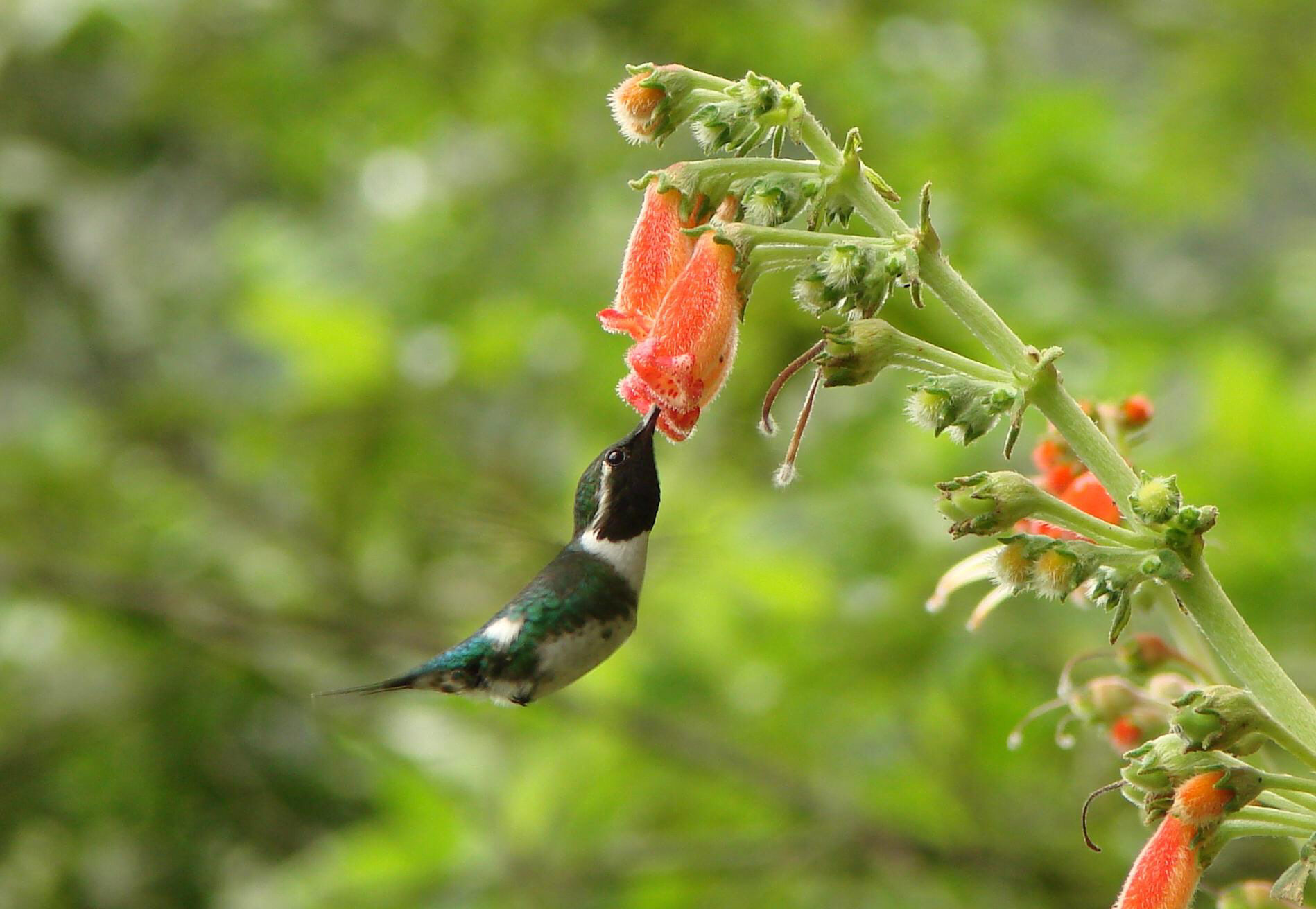 Male Esmeraladas Woodstar (Chaetocercus berlepschi) feeding on flowers of Kohleria spicata (Gesneriaceae) at Ayampe, Manabi Province, Ecuador.